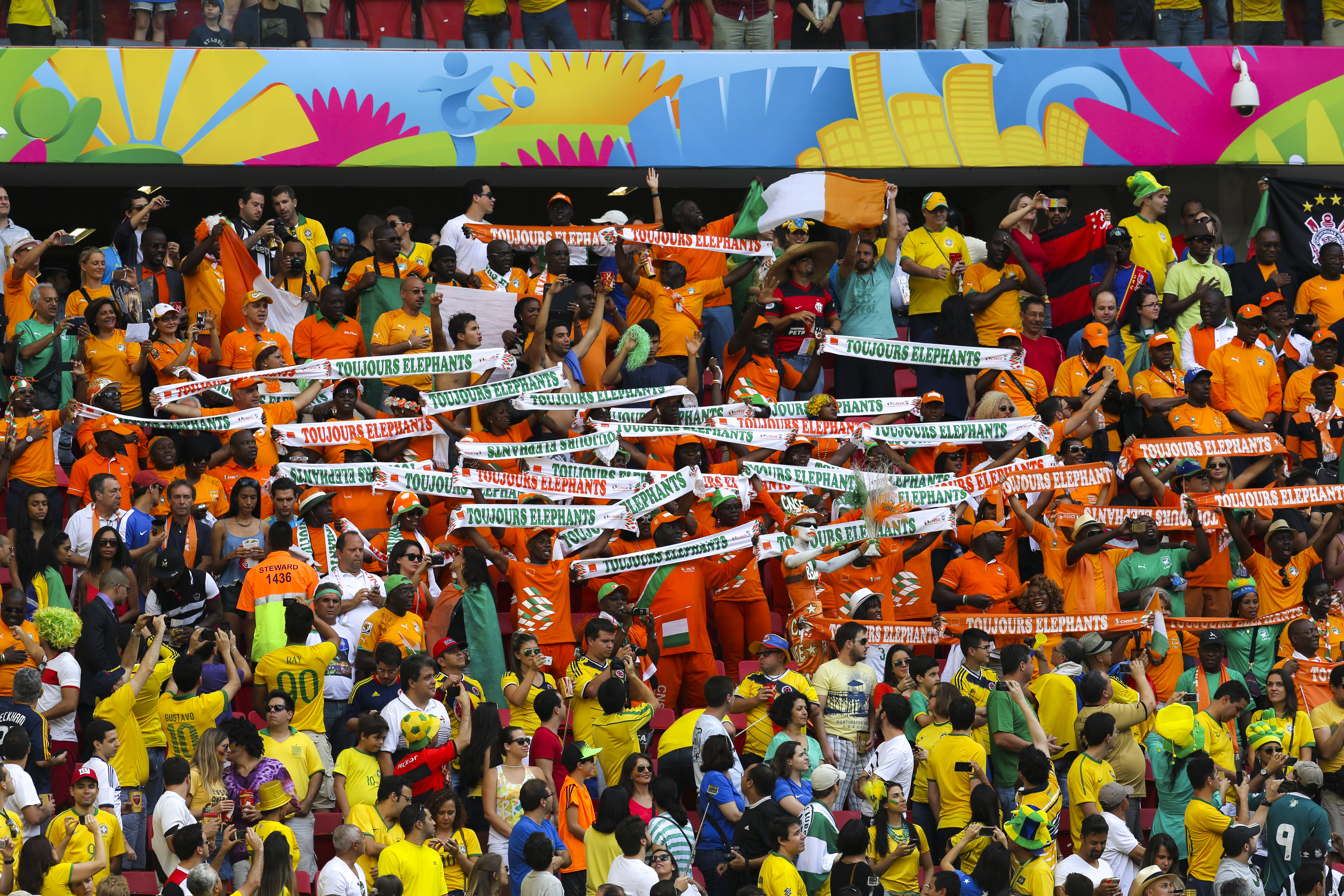 Colombia and Ivory Coast match at the FIFA World Cup 2014-06-19